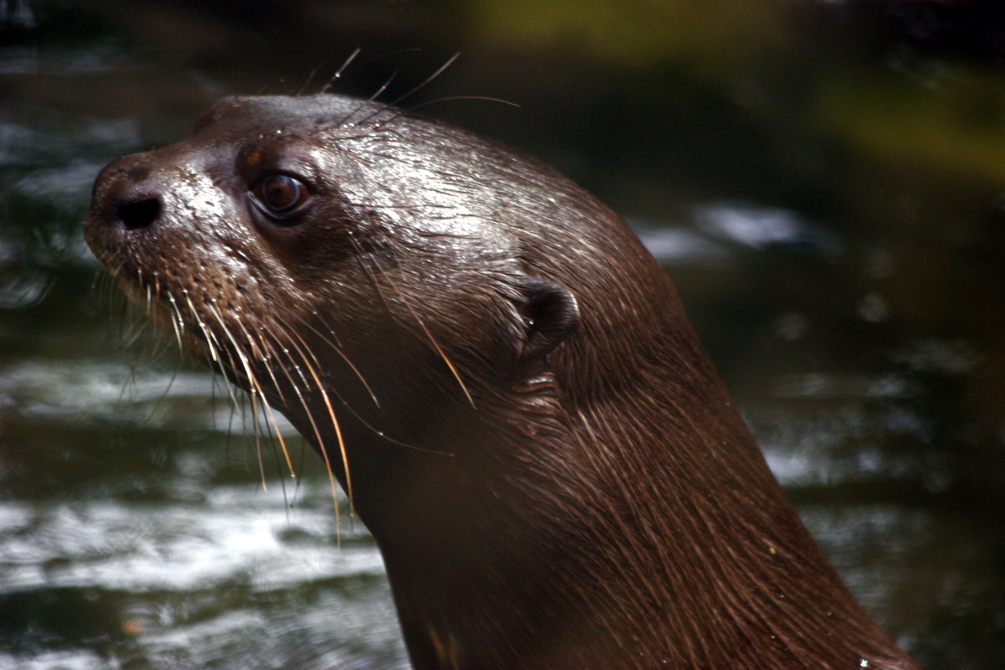 Brazilian giant river otter (Pteronura brasiliensis), Museu Paraense Emílio Goeldi, Belém